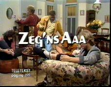 Zeg 'ns Aaa leader of 1985